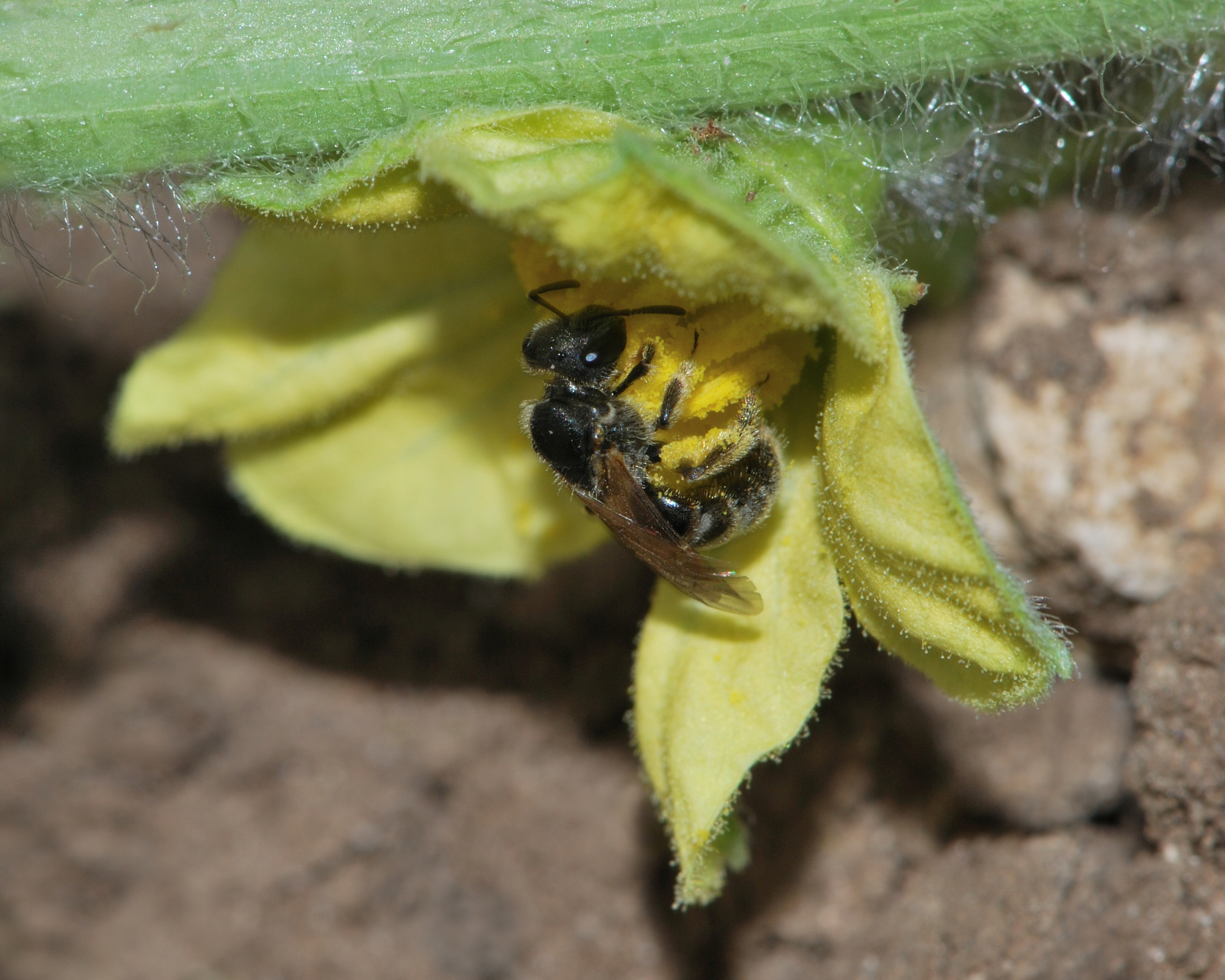 Lasioglossum malachurum, female foraging on a watermelon flower, Hulda, Judean Foothills, Israel, June 1, 2011.